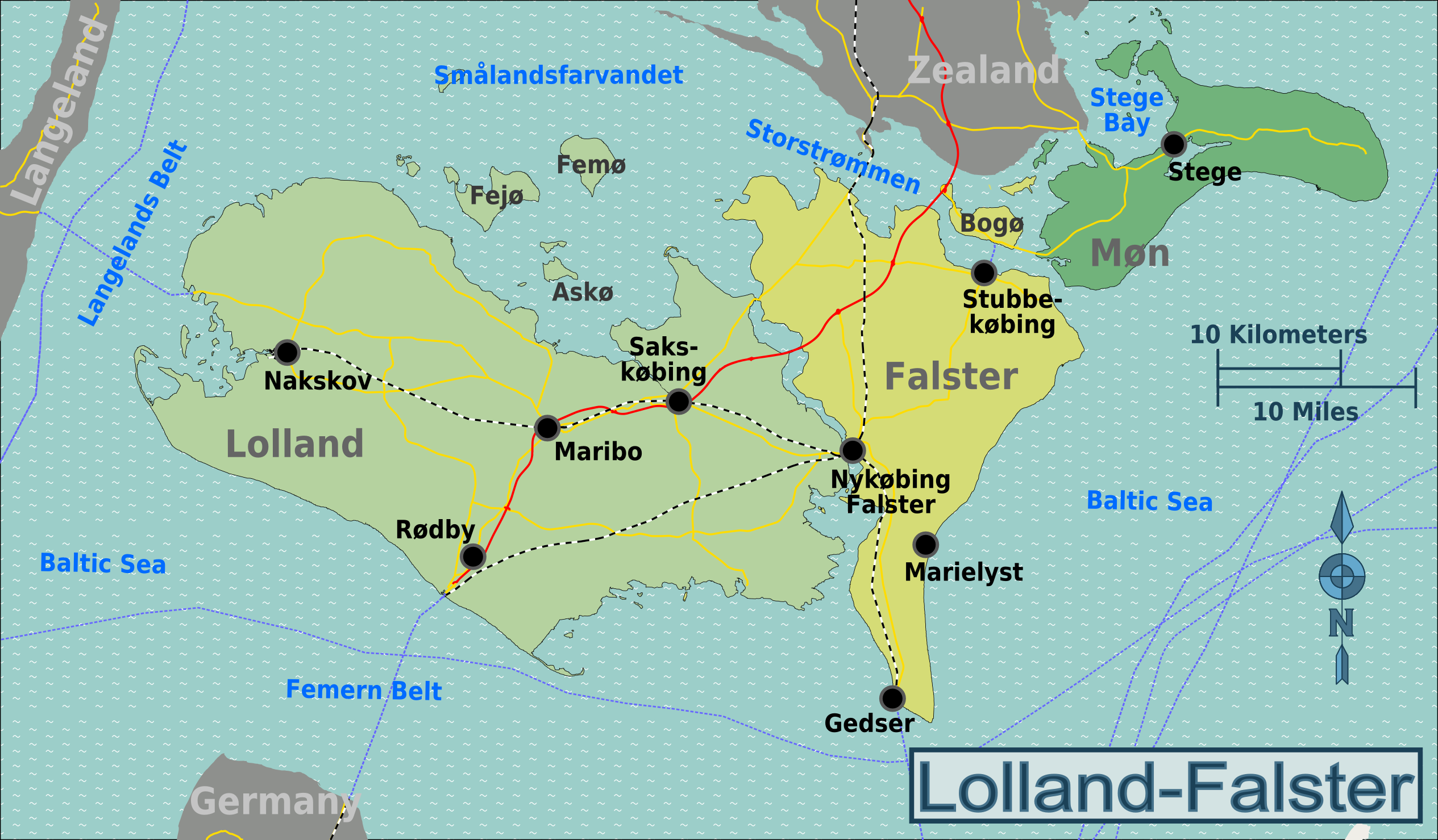 Regional map of Lolland-Falster. Regional map of Lolland-FalsterSVG version: :Image:Lolland-Falster.svg, Lolland-Falster Map of: Lolland-Falster¤